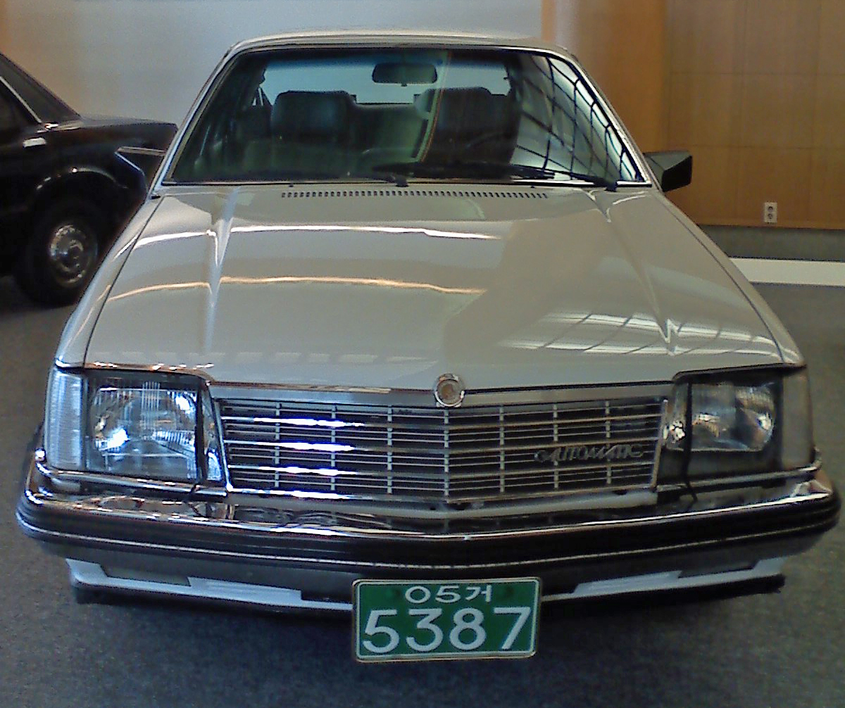 1986~1987 Daewoo Royale salon.